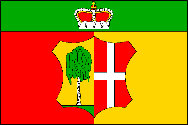 Municipal flag of Březí , District Prague-East, Czech Republic